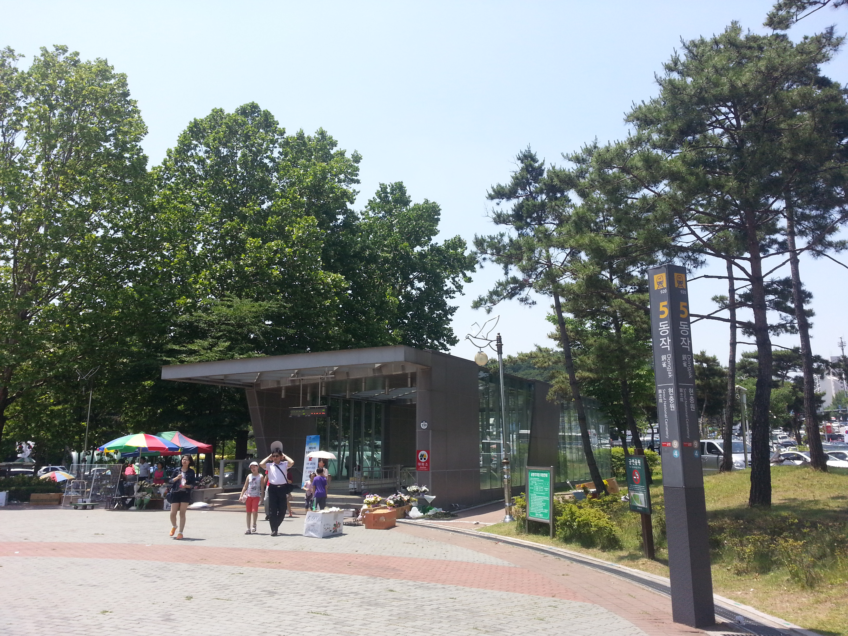 Seoul Metro Subway Line 9 - Dongjak Station, Exit 5